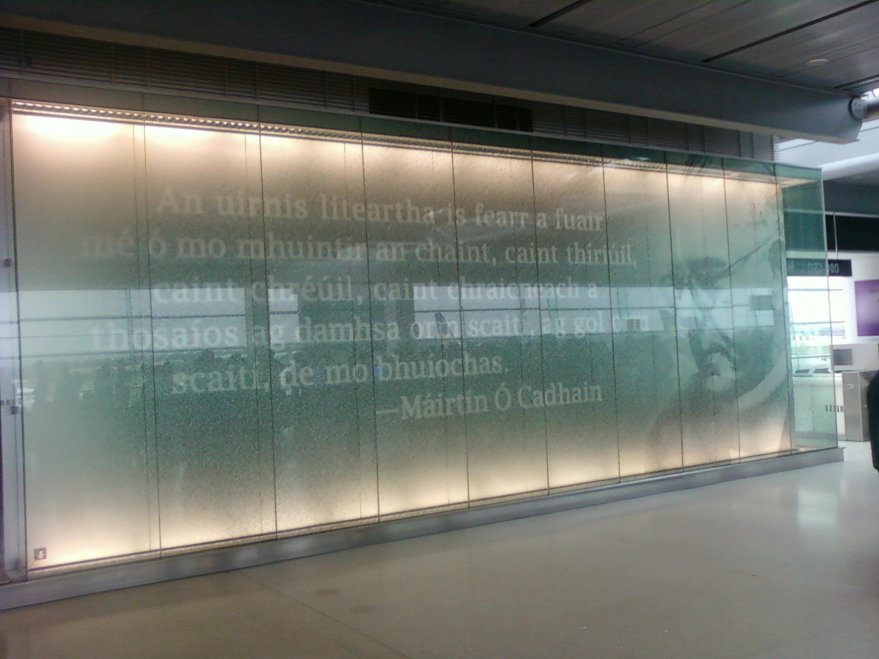 Mural commemorating the author Máirtín Ó Cadhain at Dublin AirportGaeilge: Múrmhaisiú in ómós de Mháirtín Ó Cadhain in aerfort Átha Cliath